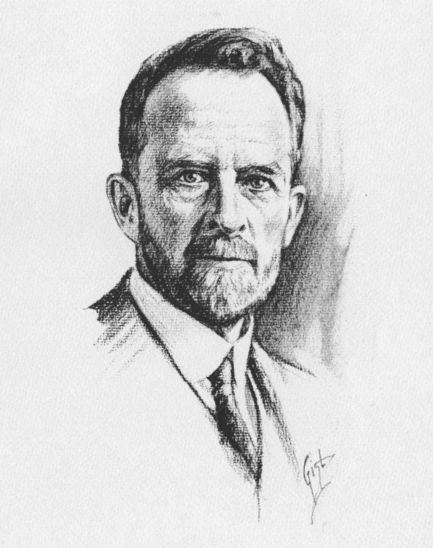 1931 sketch of California Institute of Technology Professor Thomas Hunt Morgan